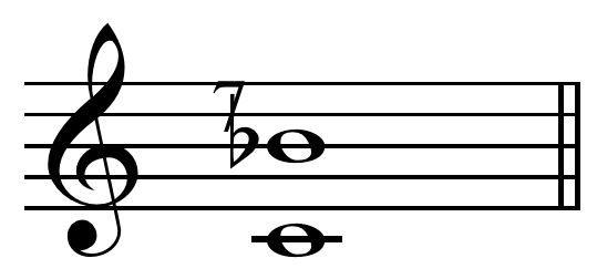 Harmonic seventh on C = B♭ (Ben Johnston's notation). 7:4 = 968.83 cents. Limit: 7-limit.